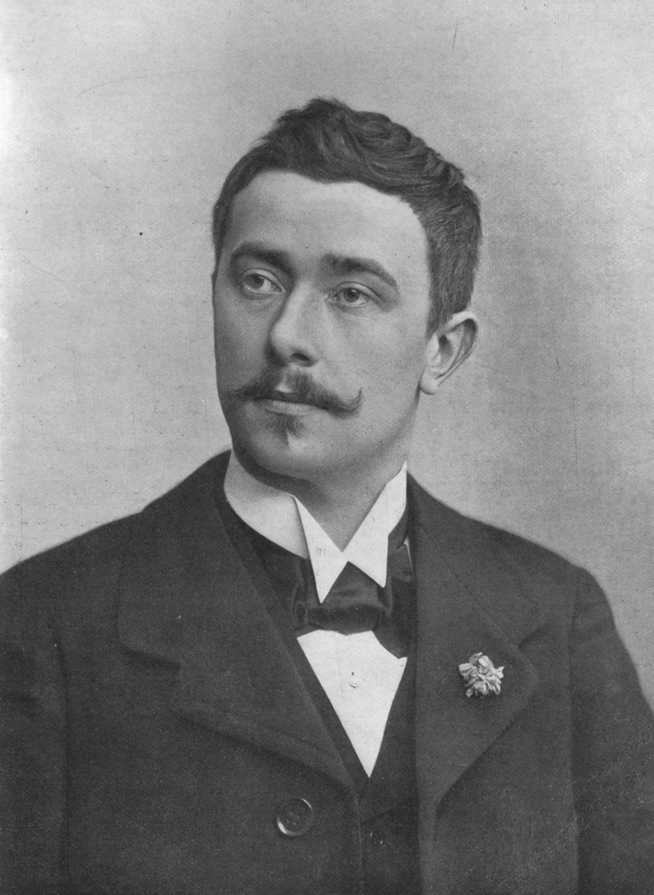 Maurice Maeterlinck in 1901.